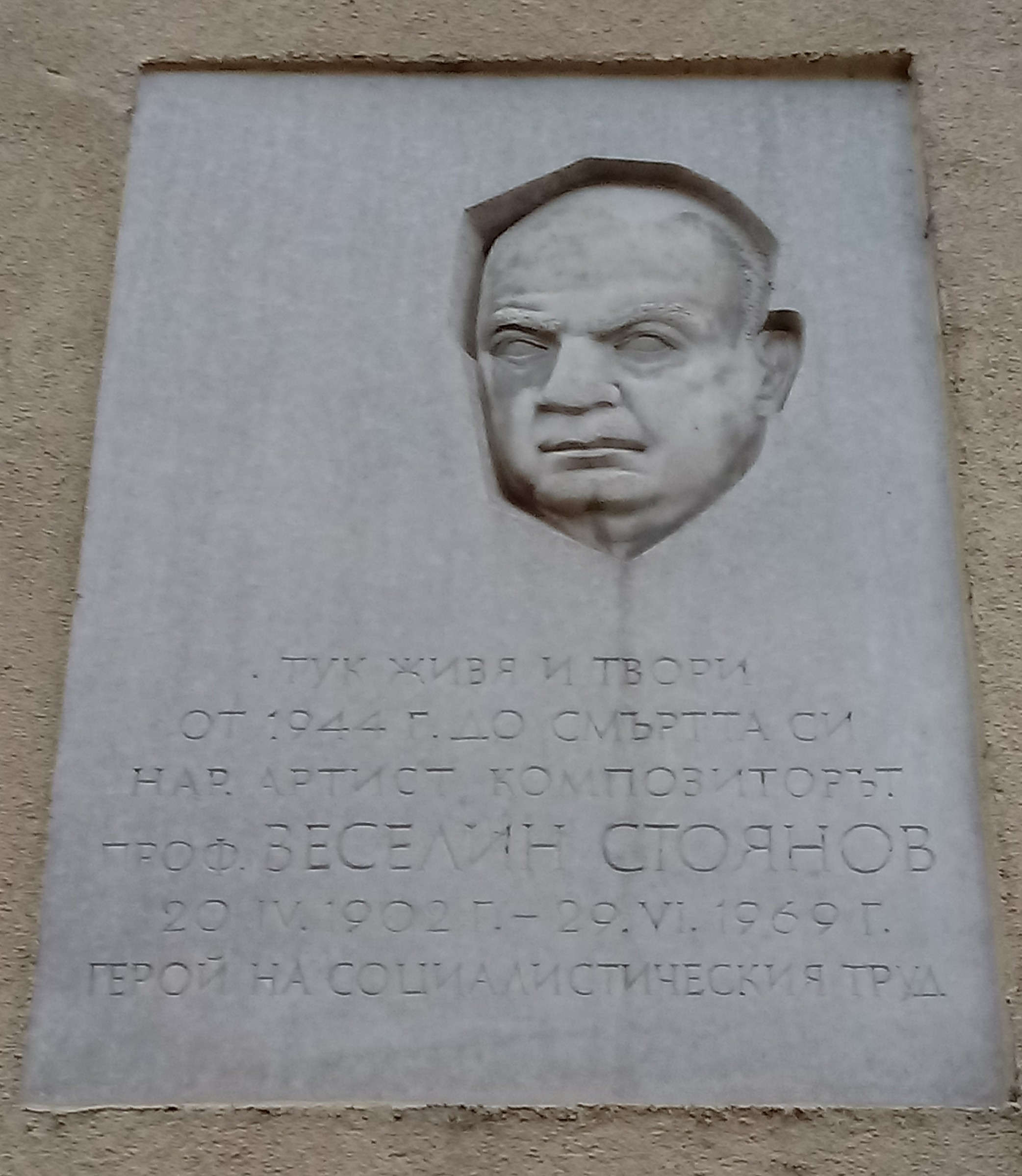 Veselin Stoyanov memorial plaque, 6 Racho Dimchev Str., Sofia